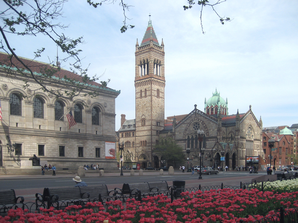 Northwest corner of Copley Square in Boston, Massachusetts, USA, showing the Boston Public Library at left, and Trinity Church at right.